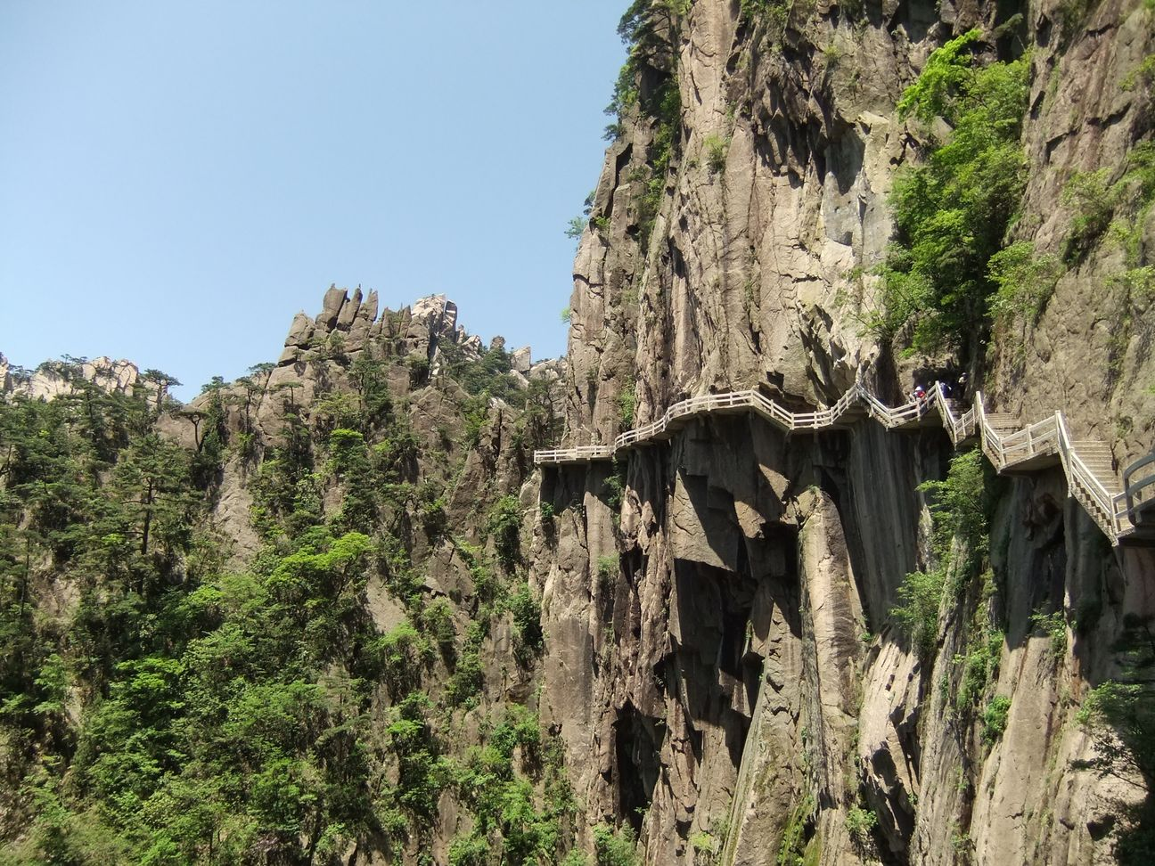 西海大峡谷栈道 - Path on the Cliff(West Sea Canyon) - 2010.05